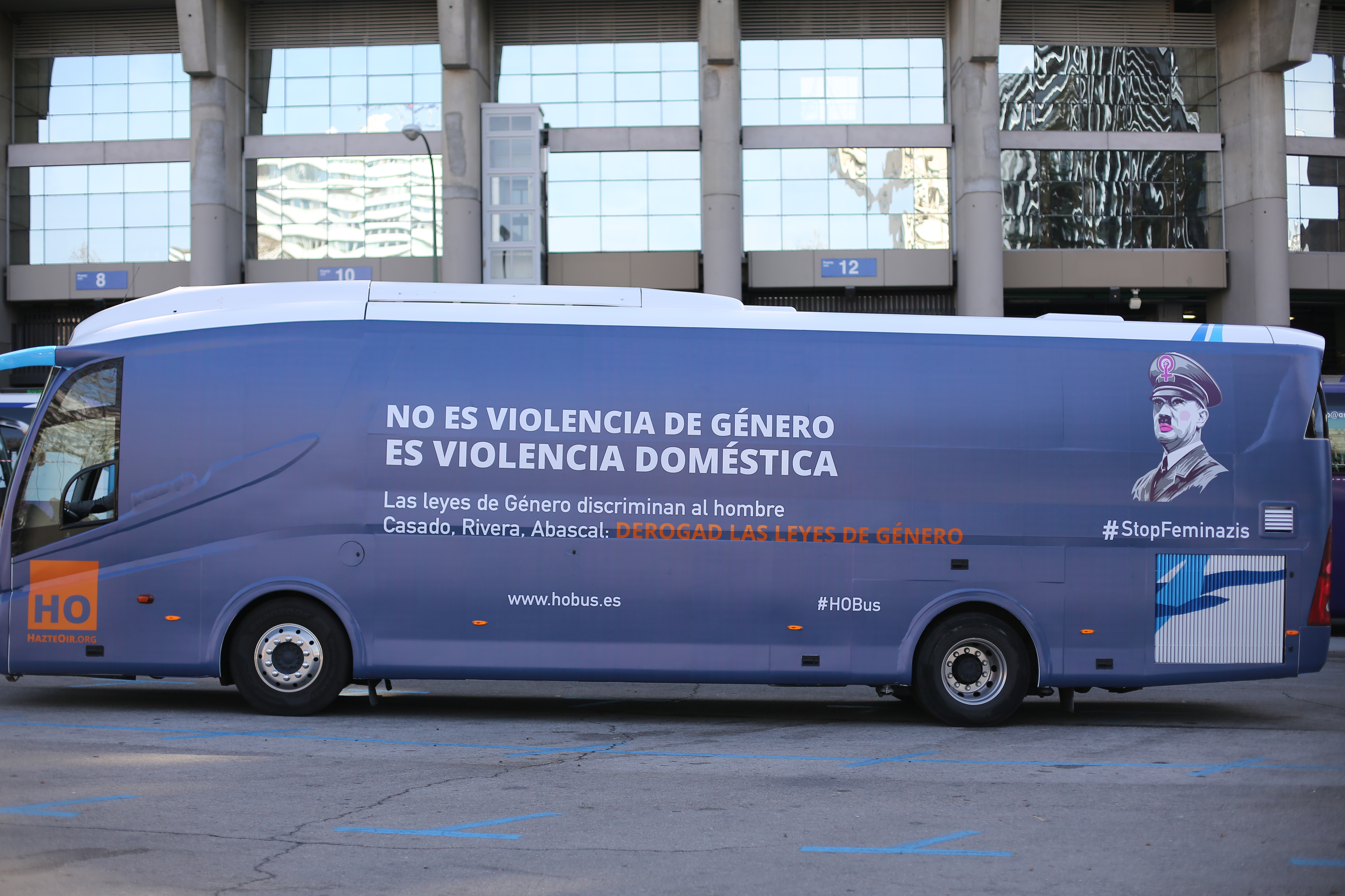 A Spanish protest bus against sexist laws on domestic violence, demanding that laws are made gender-neutral.